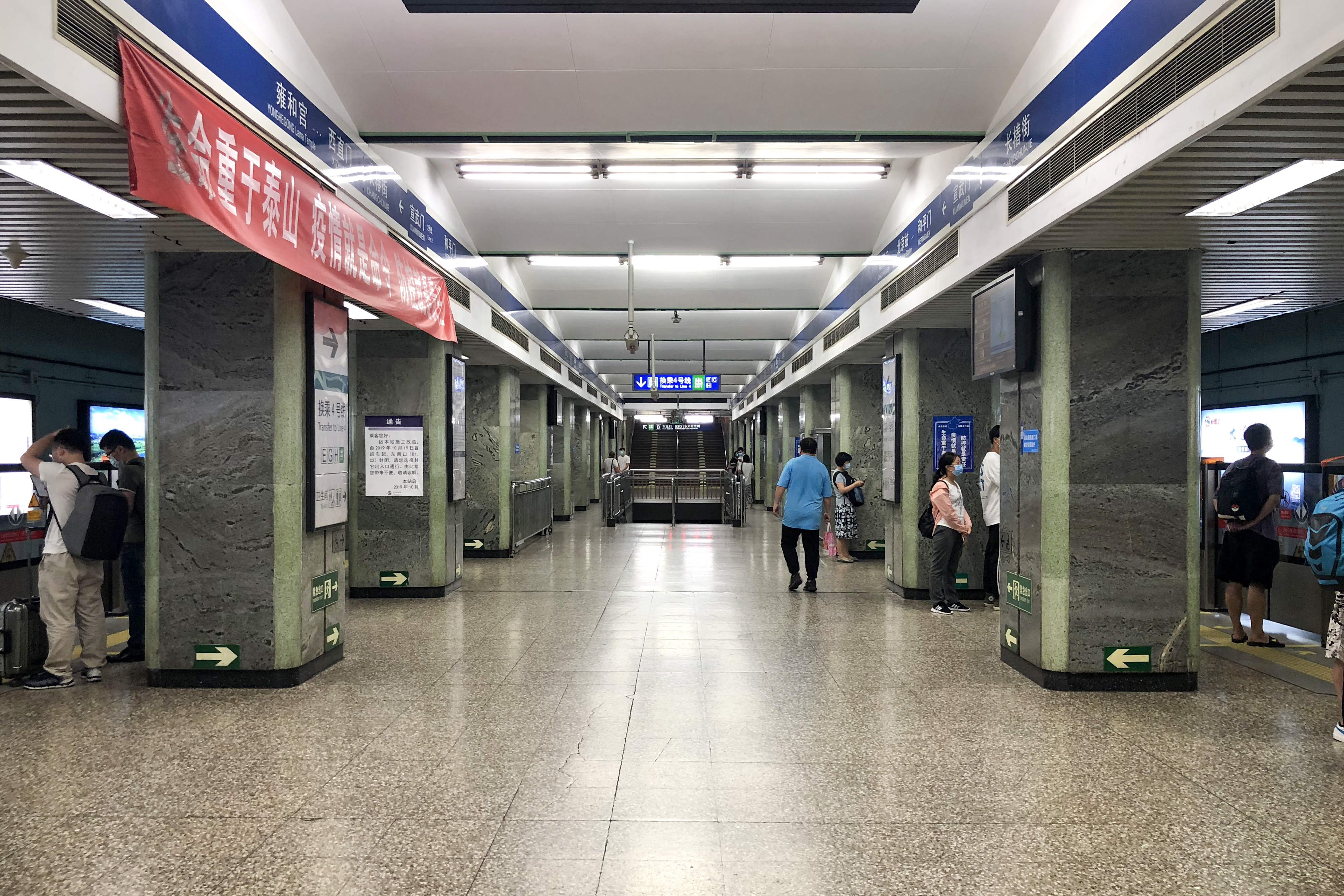 Often crowded.